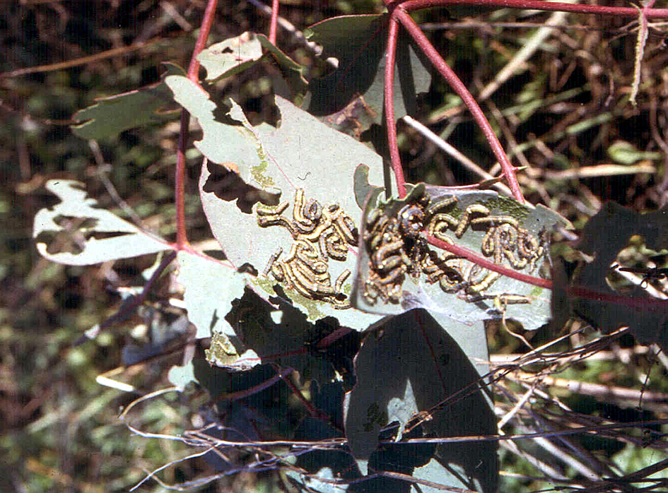 The Autumn Gum Moth is one of the most common insects found on eucalypts. It is an important pest in Blue Gum plantations throughout southern Australia. The caterpillar (larval) stages feed on many species of eucalypts but prefer the juvenile leaves of those species with blue-green foliage eg Tasmanian Blue Gum (E.globulus) and Shining Gum (E. nitens).